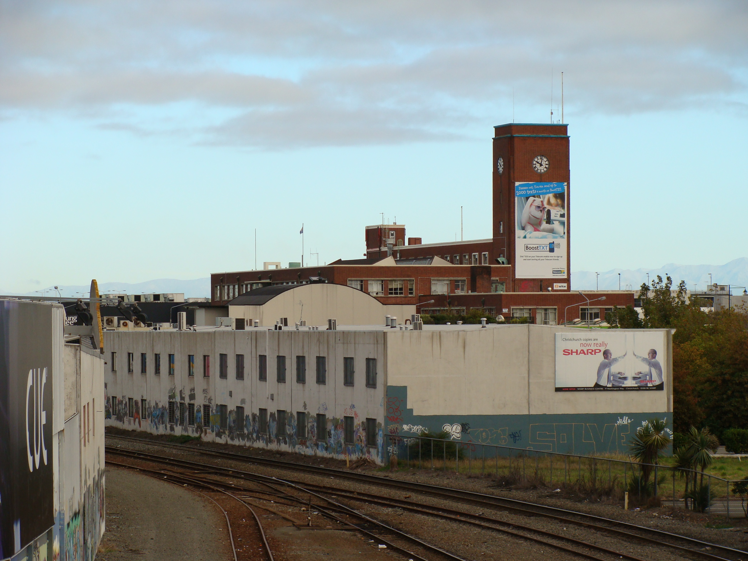 Site of the Canterbury Provincial Council broad gauge Christchurch station, centre-foreground; Christchurch station (Moorhouse Avenue) building, background.